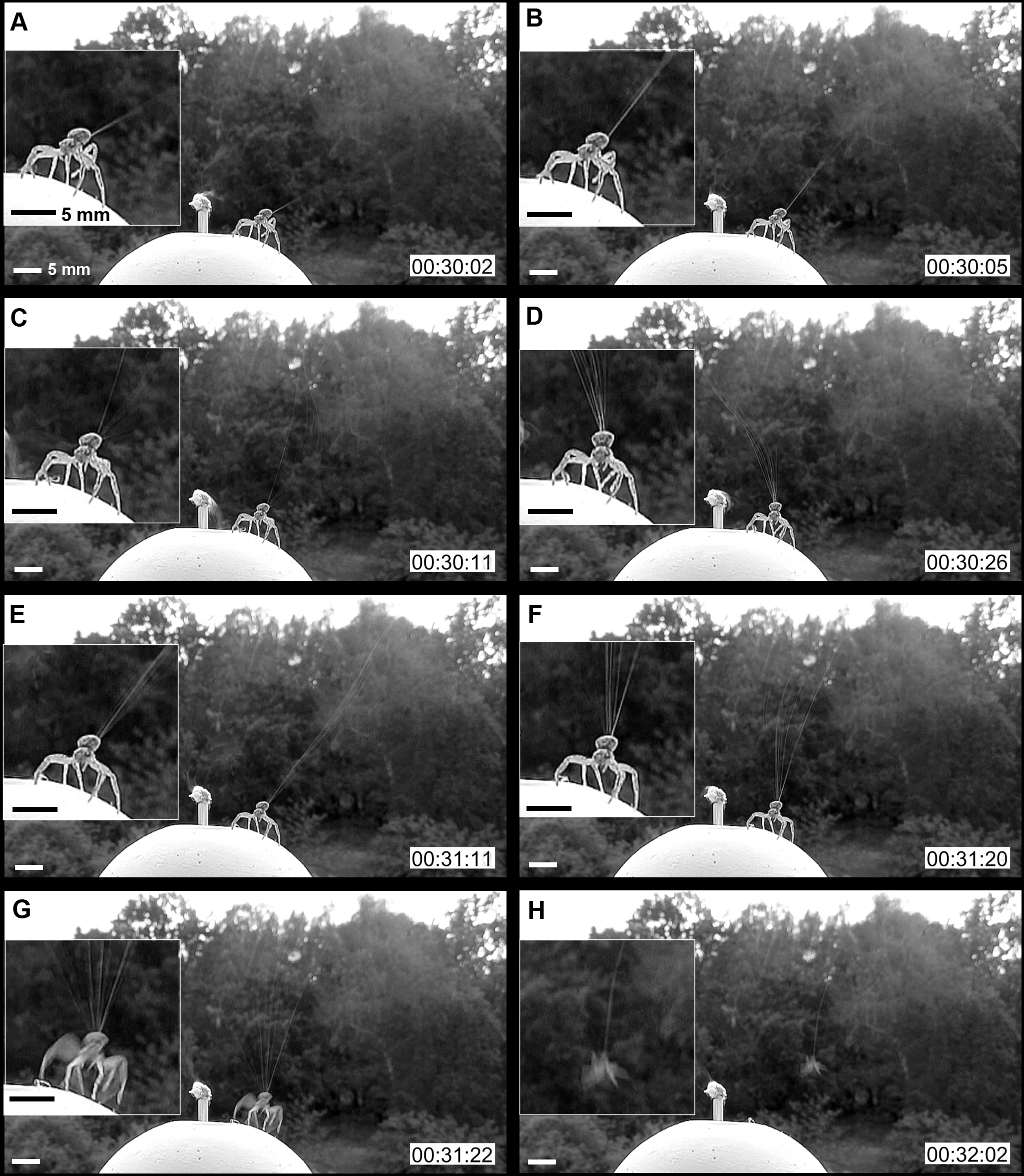 positiv version from File:Ballooning spider.png